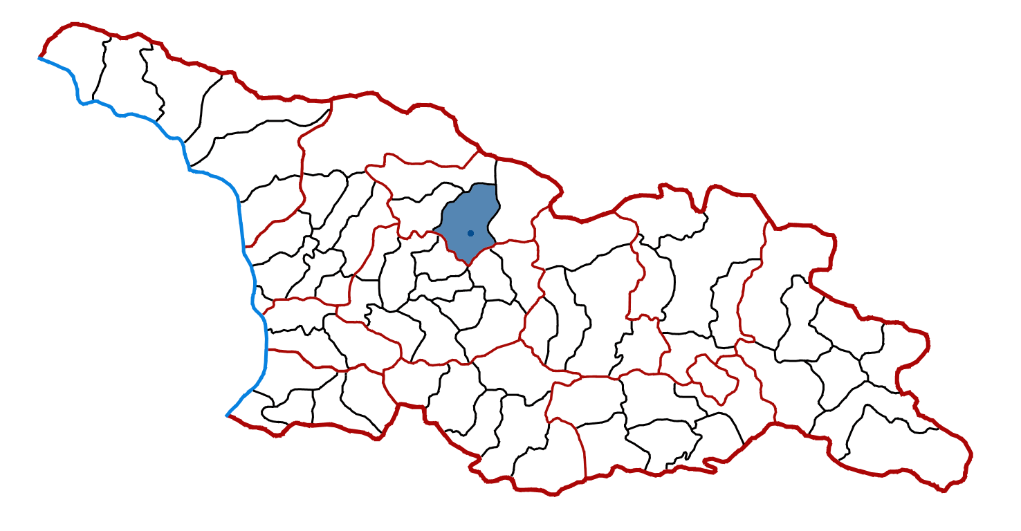 Location of Ambrolauri district in Georgia